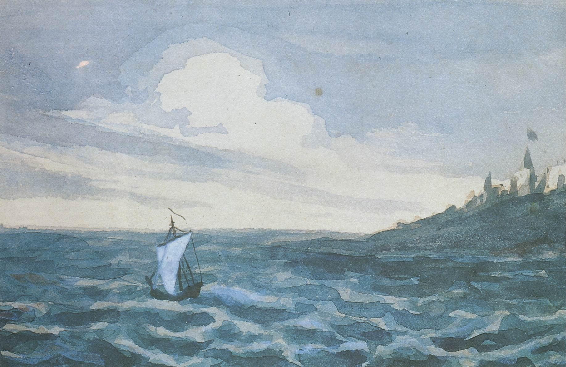 Seascape with a sailing boat, detail. Watercolor on paper. 9.2×15.7. From the album of M. Shan-Ghirei. State Public Library. Saint-Petersburg. Mikhail Lermontov (1814-1841). [A lonely sail.] 1828-1832.